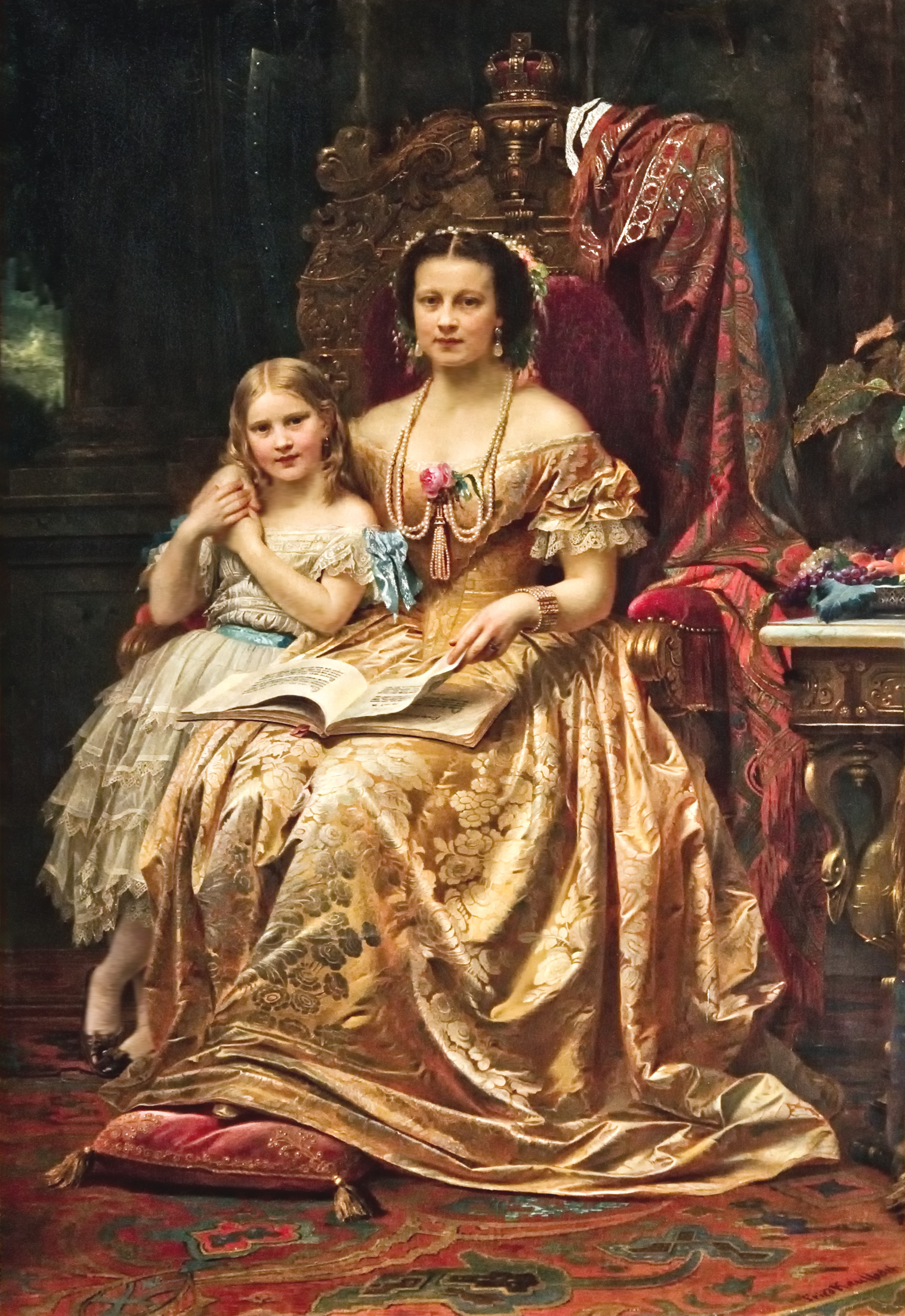 Marie of Hanover and her daughter Mary in Marienburg Castle (Hanover).